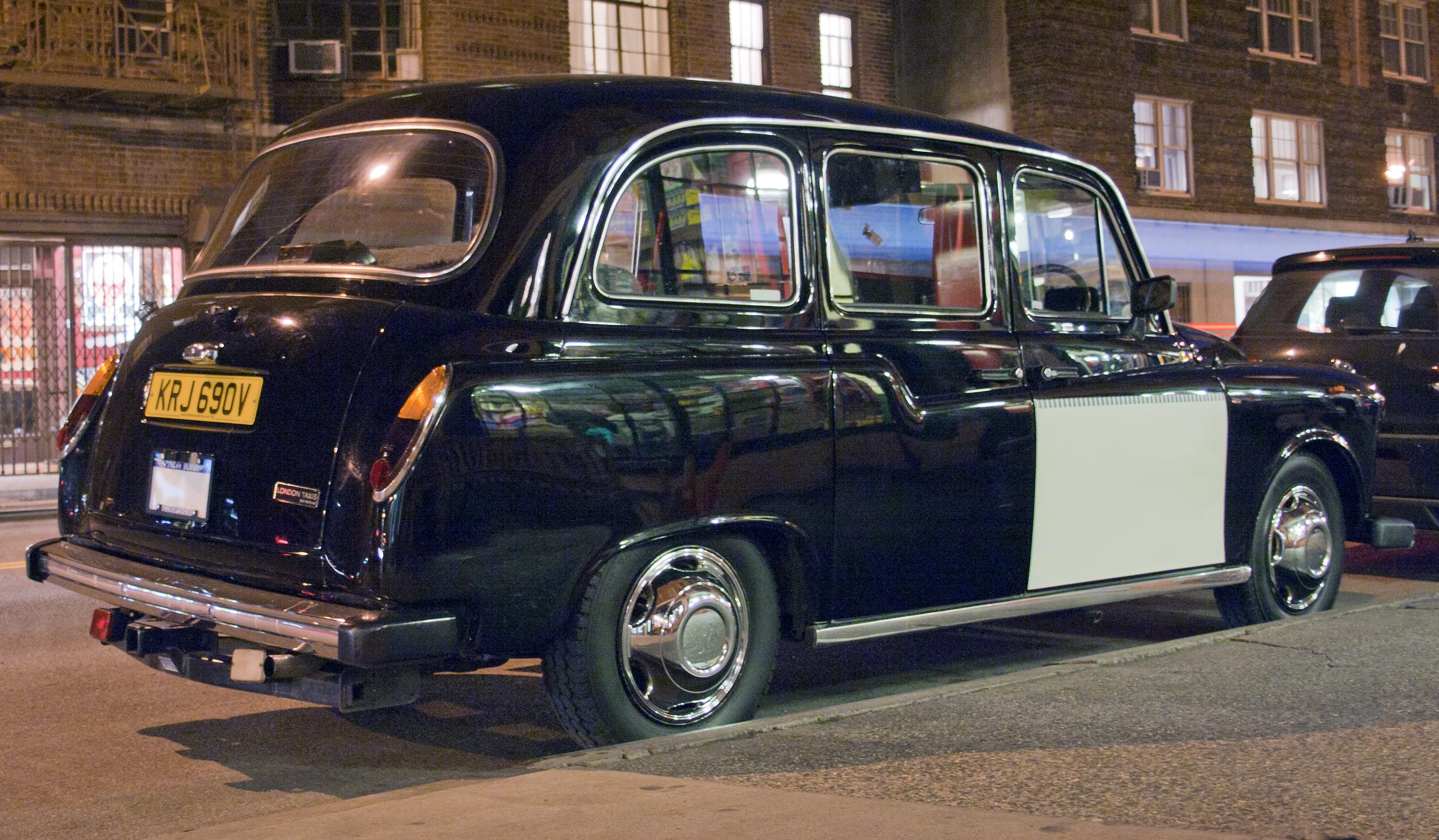 A 1997 LTI (London Taxis International) Taxi with a 2.7 litre Nissan turbodiesel. This car has been converted to biodiesel by the owner, who also has a fish&chip and a tea-shop outside of which it is often parked. No shortage of oil. It was registered in Manchester